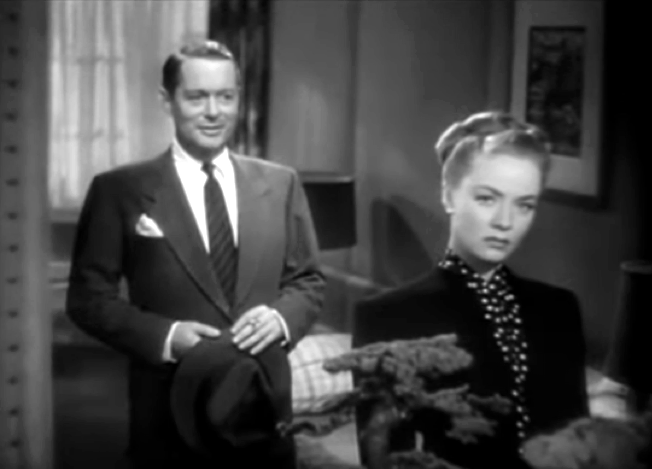 Screenshot from the trailer for Lady in the Lake, featuring Robert Montgomery and Audrey Totter, reflected in a mirror